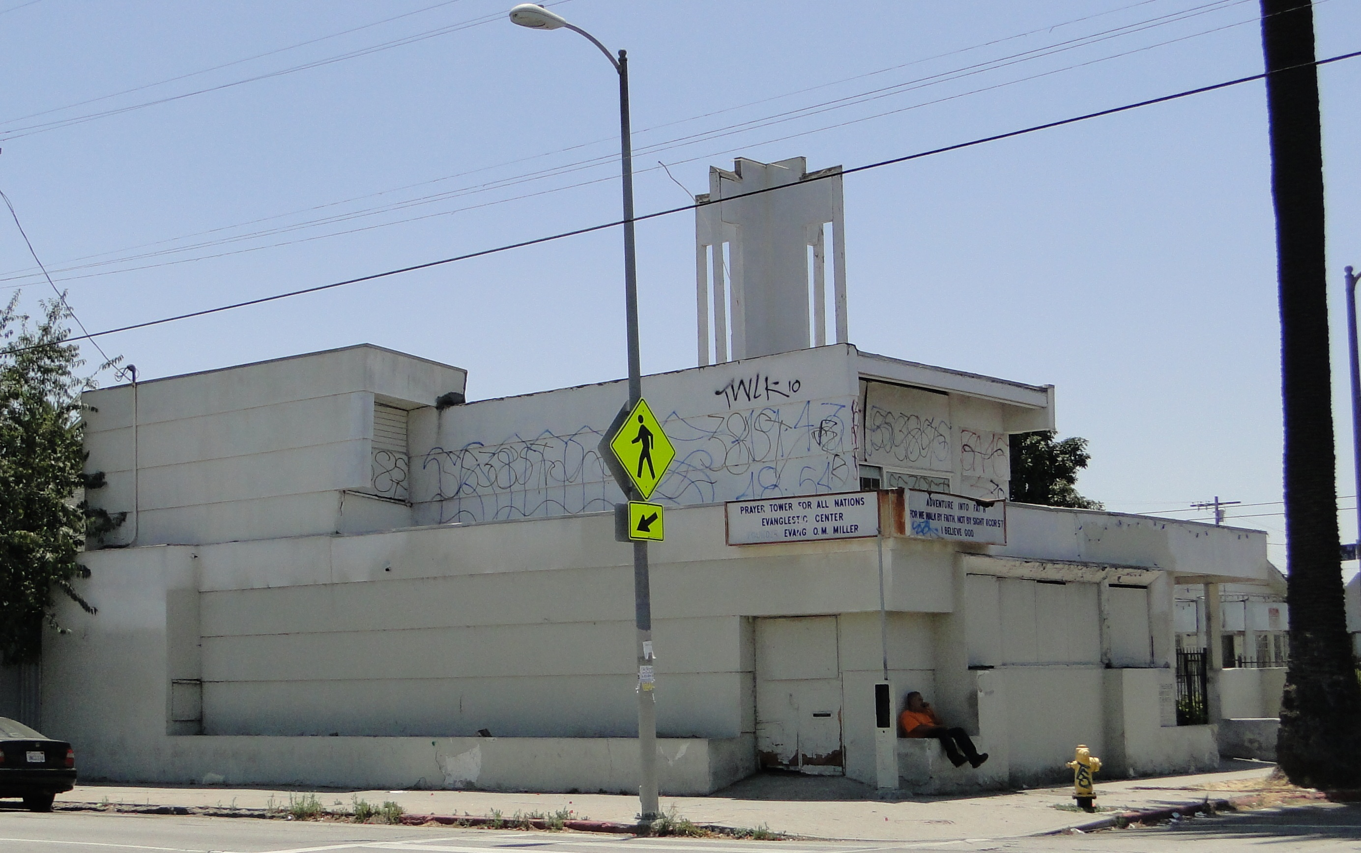 Bethlehem Baptist Church, 4901 Compton Avenue, Los Angles, California. Los Angeles Historic-Cultural Monument #968. Built in 1944 and located in South Los Angeles, this is the only built church designed by the master architect R.M. Schindler. The Modernist church features horizontal bands of stucco, an L-shaped floor plan, and an open cruciform tower, all arranged in a layered de Stijl pattern meant to attract the attention of passing cars. The building was created for a small African-American congregation, serving as a church and community center; it has been vacant for the past several years.